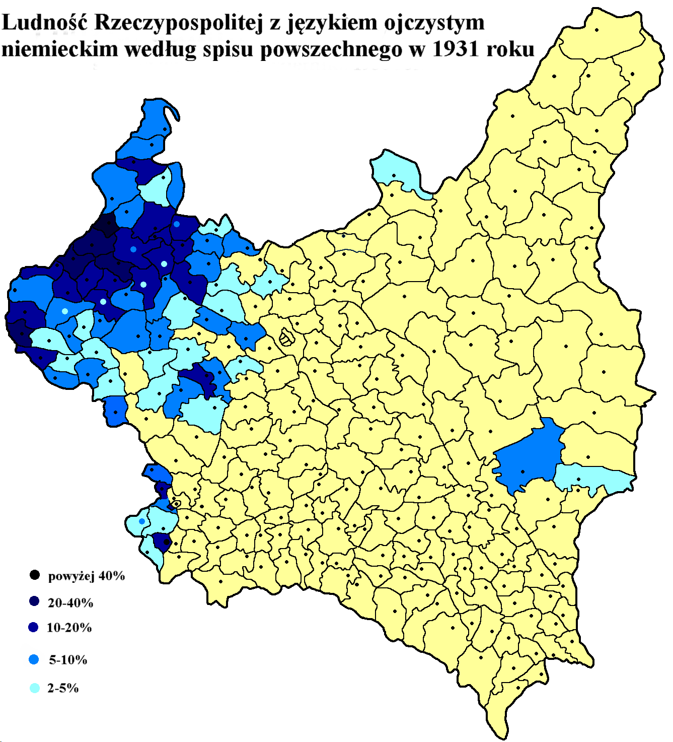 German language frequency in Poland based on Polish census of 1931